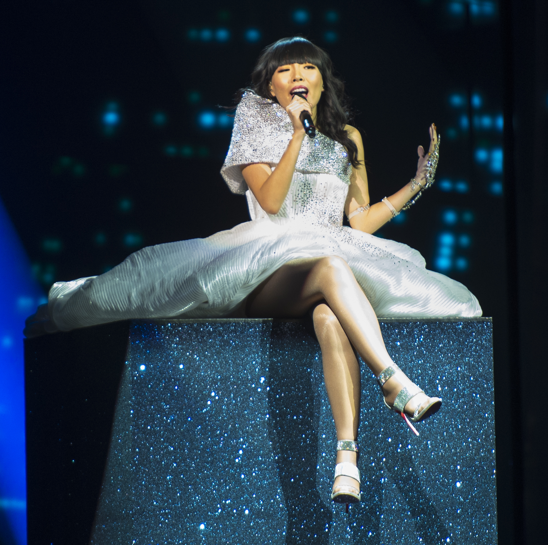 Dami Im representing Australia with the song "Sound of Silence" during a rehearsal before the second semi final of the Eurovision Song Contest 2016 in Stockholm. (Help translate this text)